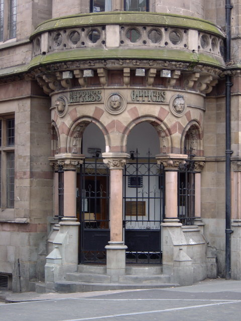 Watson Fothergill - Express Offices, Parliament Street. Main entrance This idiosyncratic porch forms the base for a circular turret running the whole height of the building, in early French Renaissance fashion. However, the arches show the distinct influence of the Moorish architecture of southern Spain. Was this perhaps the catalyst for his distinctive colour-contrasted string courses? Note the finely detailed stone sculpture including the lettering and the three portraits. These are of the Liberal politicians Cobden, Gladstone and Bright.